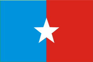 Possible flag of UWSF (Znamierowski) in use 1999